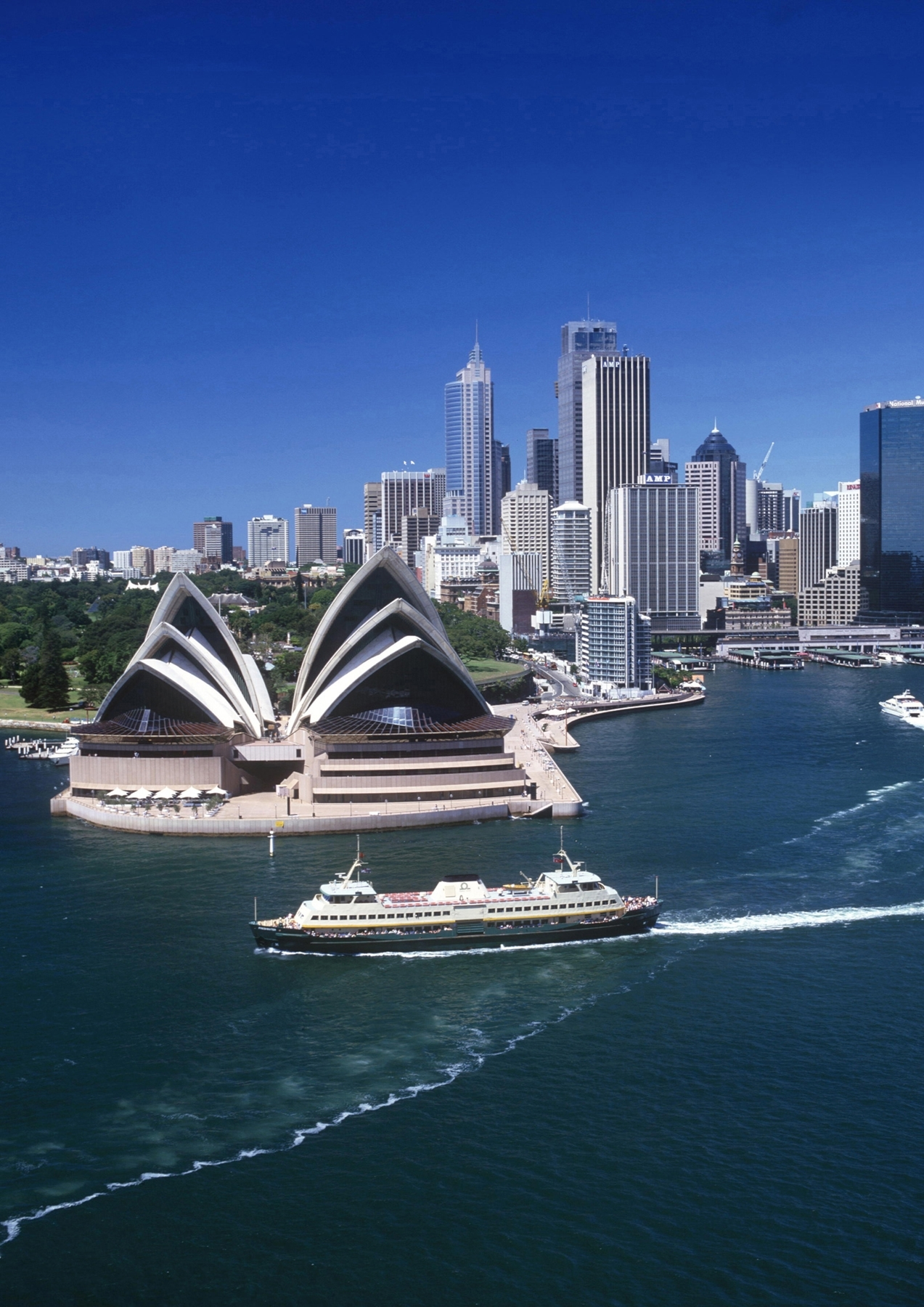 The Sydney Opera House presents theatre, musicals, opera, contemporary dance and ballet, every form of music from symphony concerts to jazz, as well as exhibitions and films. More than 200,000 people take a guided tour of the complex each year. The Opera House operates 24 hours a day, every day of the year except Christmas Day and Good Friday. The U.S. Army Information, Ticket and Reservation Travel Show, featuring Australian Getaways, will visit several installations to familiarize MWR patrons with vacation opportunities.